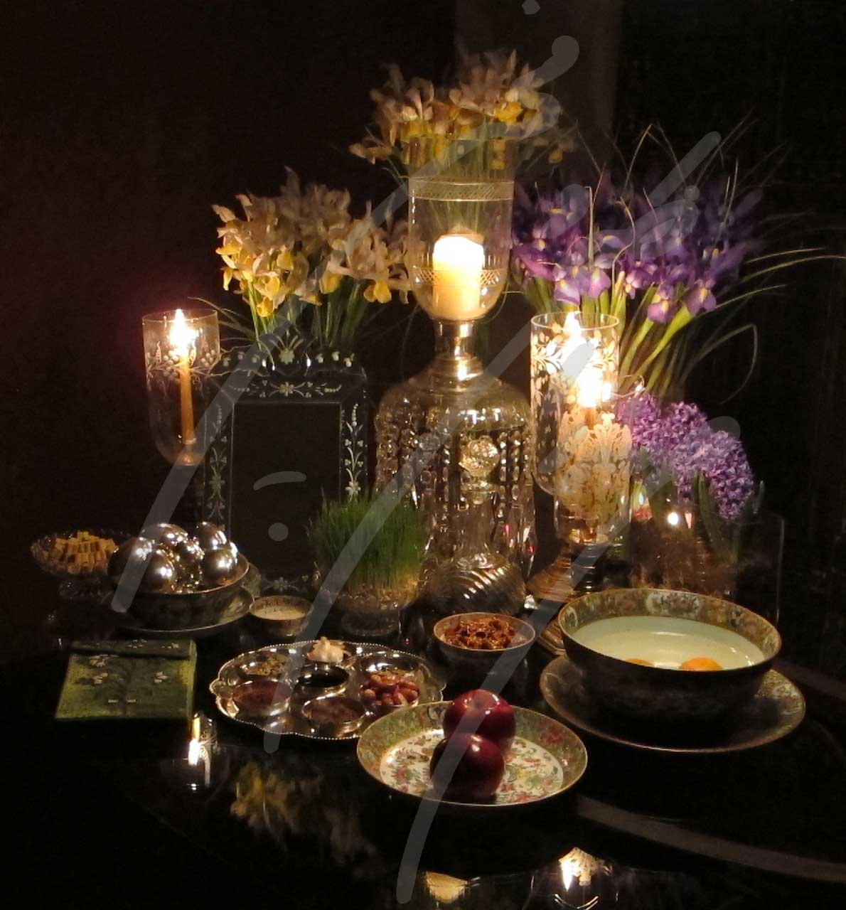 Haft-Seen / Haft Sin, Tehran, 1391